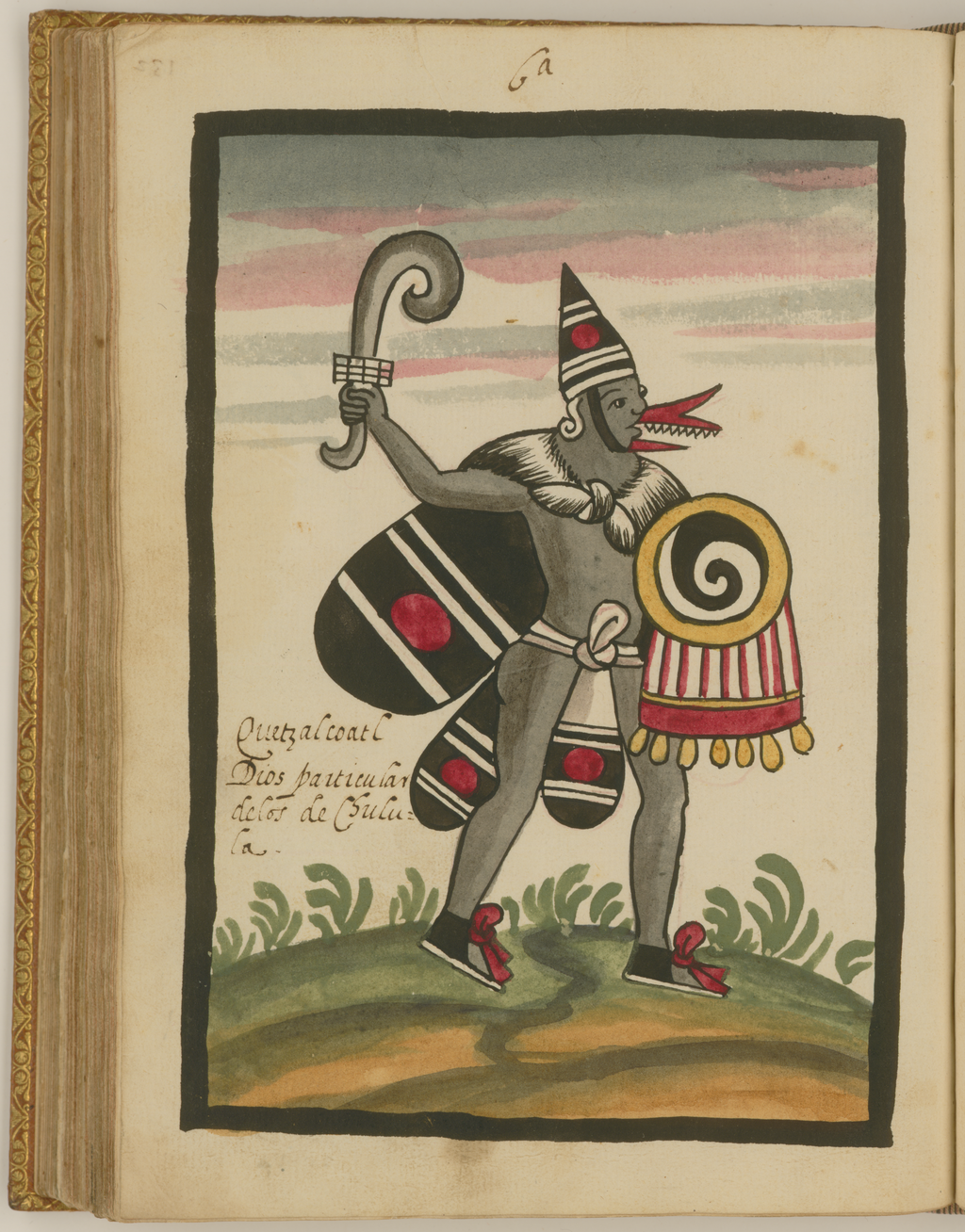 The Tovar Codex, attributed to the 16th-century Mexican Jesuit Juan de Tovar, contains detailed information about the rites and ceremonies of the Aztecs (also known as Mexica). The codex is illustrated with 51 full-page paintings in watercolor. Strongly influenced by pre-contact pictographic manuscripts, the paintings are of exceptional artistic quality. The manuscript is divided into three sections. The first section is a history of the travels of the Aztecs prior to the arrival of the Spanish. The second section, an illustrated history of the Aztecs, forms the main body of the manuscript. The third section contains the Tovar calendar. This illustration, from the second section, depicts Quetzalcoatl, with conical hat, a beak, and feathered shield and cape, holding a curved knife. Quetzalcoatl (Feathered Serpent), one of the principal gods of the Aztecs, was a god of creation, linked to fertility and resurrection, and rain in his manifestation as Ehecatl or the wind god. There was a large temple honoring him in Cholula. He was often identified with Topiltzin, a legendary and possibly historical priest-king of Tula in the Toltec era and was described as light skinned and bearded. When Hernán Cortés arrived in Mexico in 1519, Emperor Moctezuma II (reigned 1502–20) was convinced that Cortés was Quetzalcoatl. The design of the god’s cape, hat, and loincloth represent the wings of a butterfly, symbol of fallen soldiers. Aztec gods; Aztecs; Codex; Indians of Mexico; Indigenous peoples; Mesoamerica; Tovar Codex